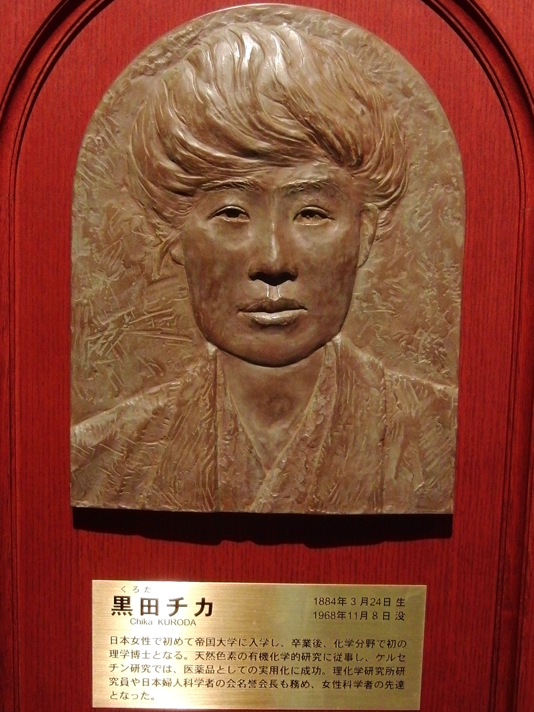 Relief of Chika KURODA, chemist from Japan. Exhibit in the National Museum of Nature and Science, Tokyo, Japan.